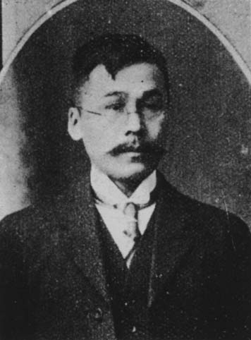 Mr. Tomokichi Fukurai, lecturer of the Shinshu University.